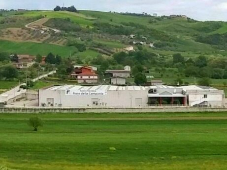 "Fiere della Campania", a trade fair near Ariano Irpino, Italy